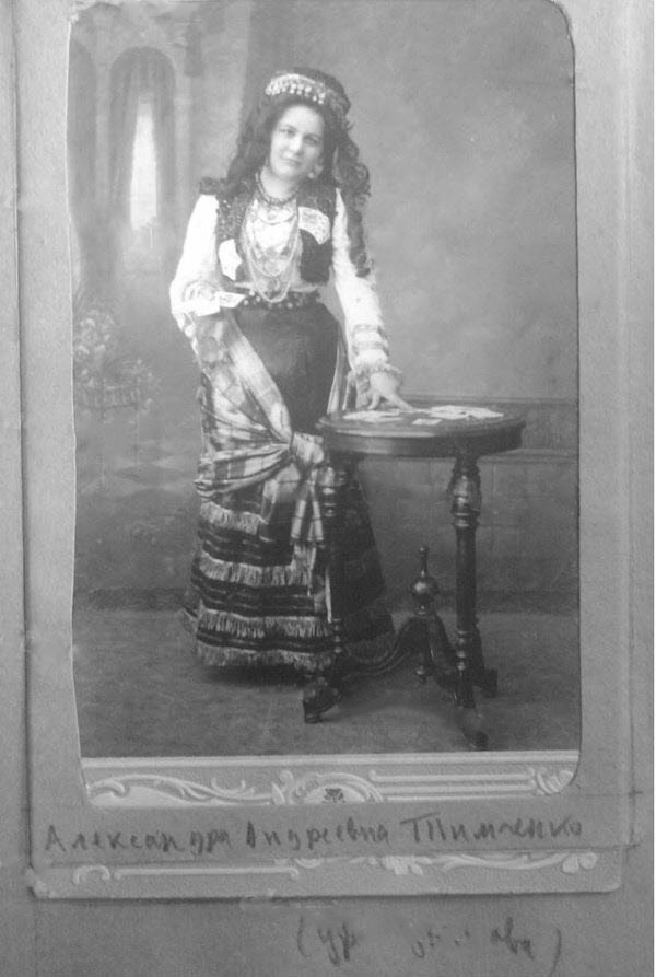 wife Nadezhda Zubareva